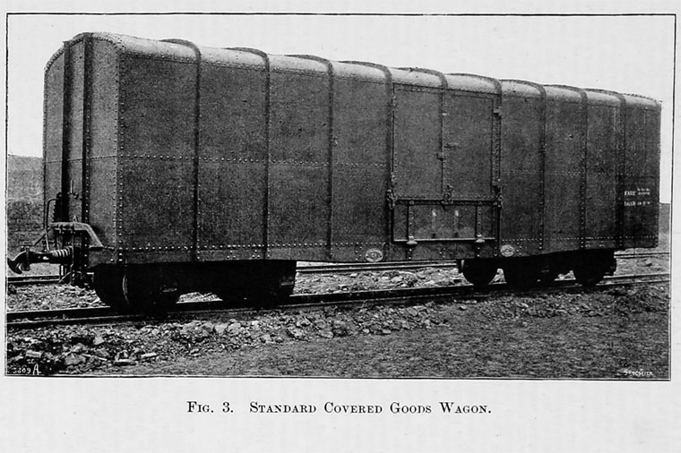 Barsi Light Railway rolling stock by Leeds Forge Co (1897)